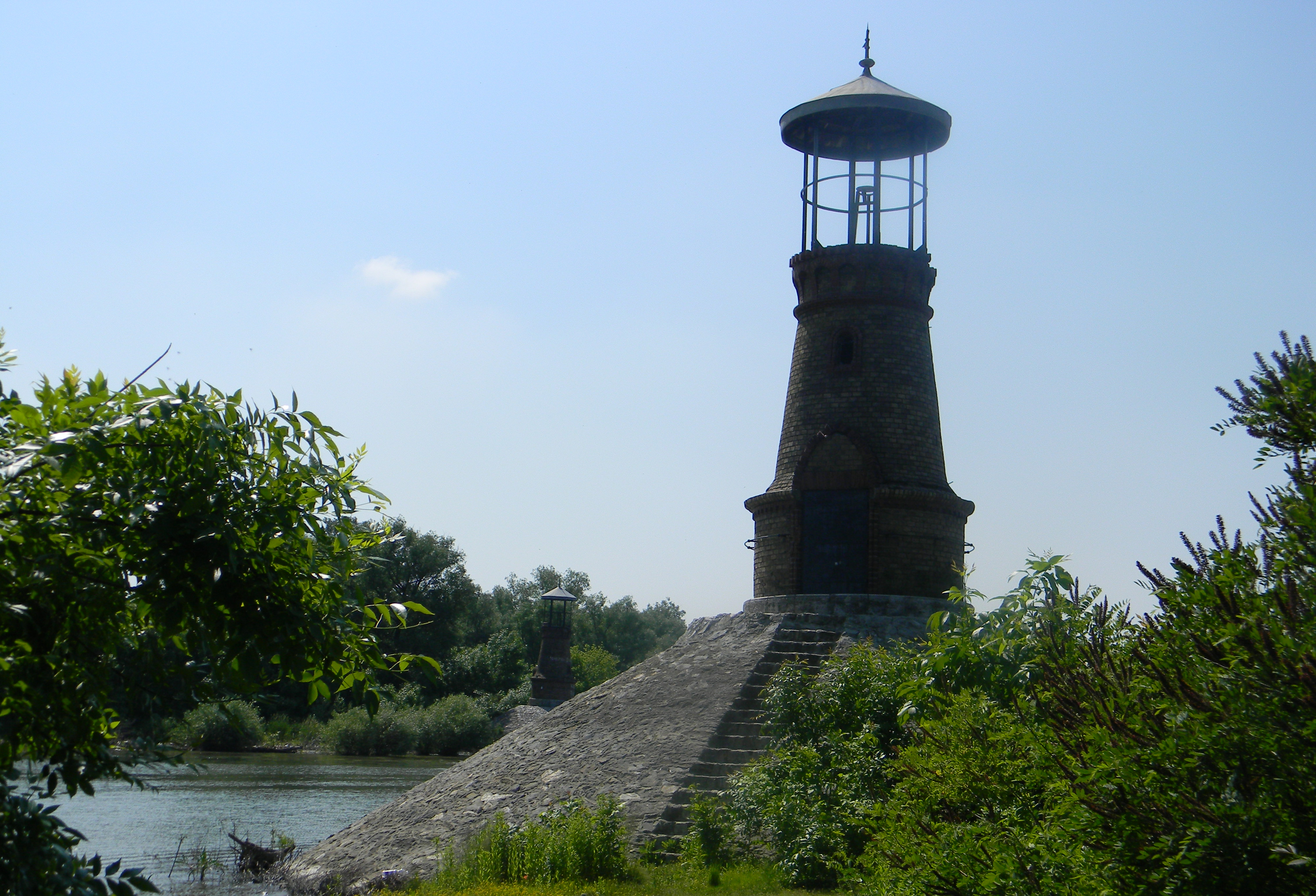 The lighthouses on the river Tamiš in Pančevo 95″ N, 20° 38′ 06.24″ E